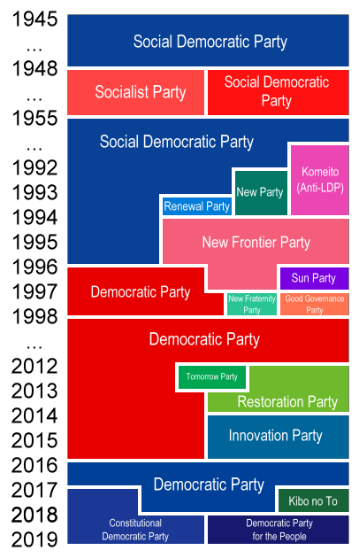 Timeline of mainstream Non-LDP political parties of Japan since 1945.